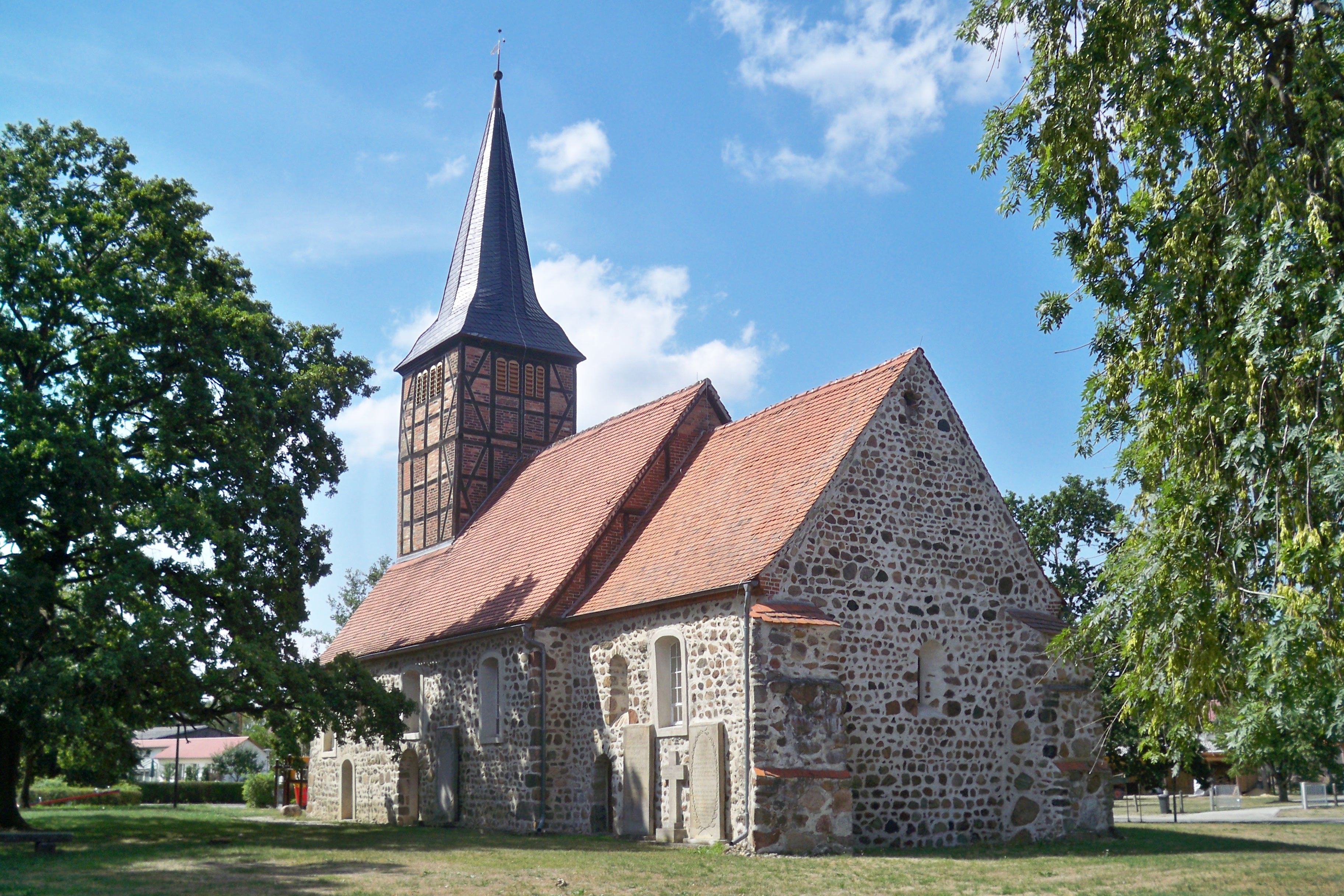 Solpke, Gardelegen, Saxony-Anhalt, village church